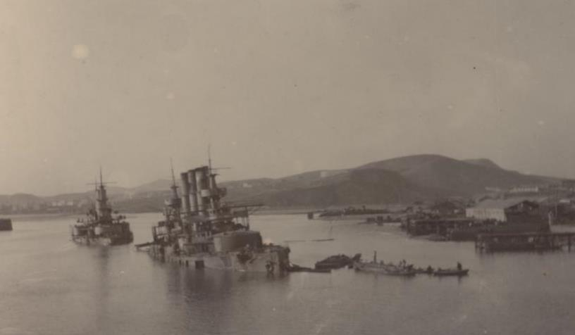 Left: Poltava battleship, right Retvizan battleship sunk in the port of Port Arthur (Russian Empire), photographed on January 4 1905 (the day after the Japanese conquested it), as it appeared to Italian Admiral Ernesto Burzagli (1873-1944), Italian naval attaché in Tokio, who sailed from Yokohama (Japan) on a diplomatic mission to Port Arthur, during the Russo-Japanese War. The original picture, scanned by Emiliano Burzagli, belongs to the Private archive of Burzaghi family, Italy.